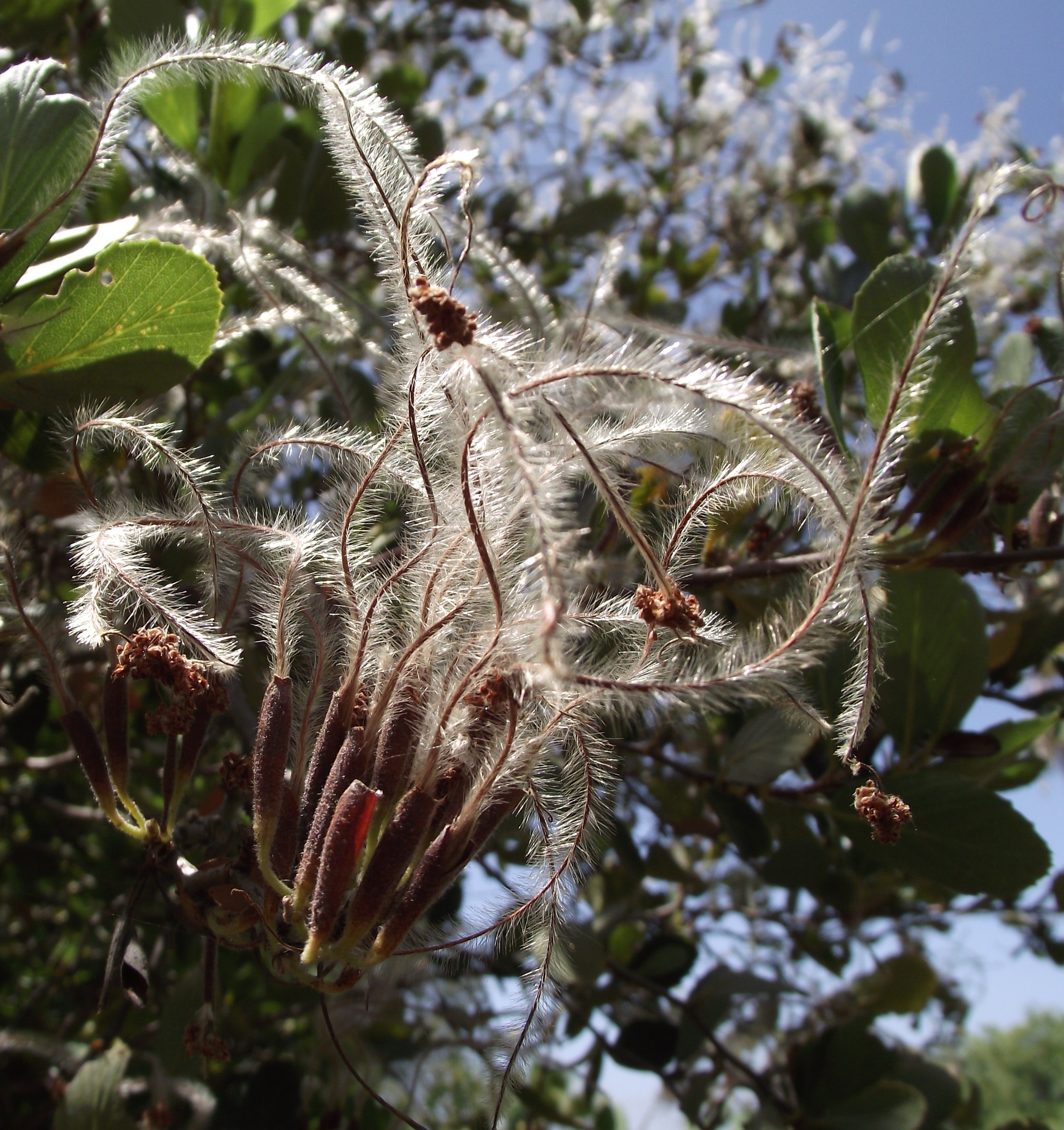 Cercocarpus betuloides var. blancheae — Mountain mahogany. At the San Diego Zoo Safari Park, Escondido, California.